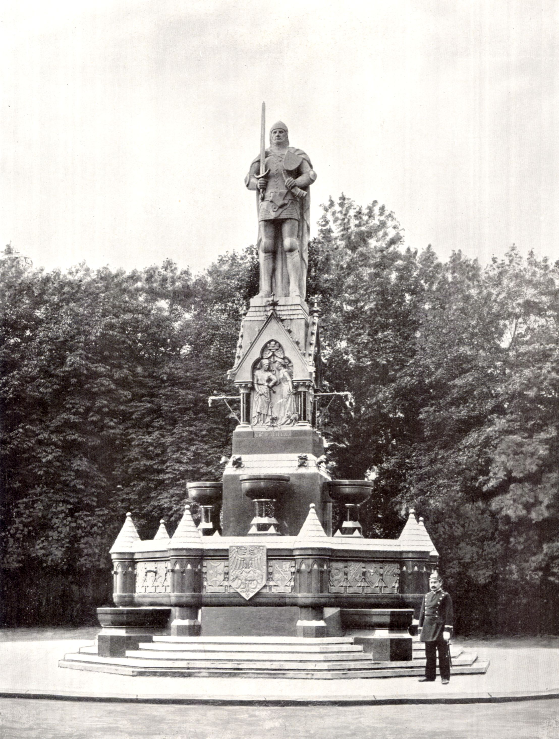 Berlin - Rolandbrunnen around 1900